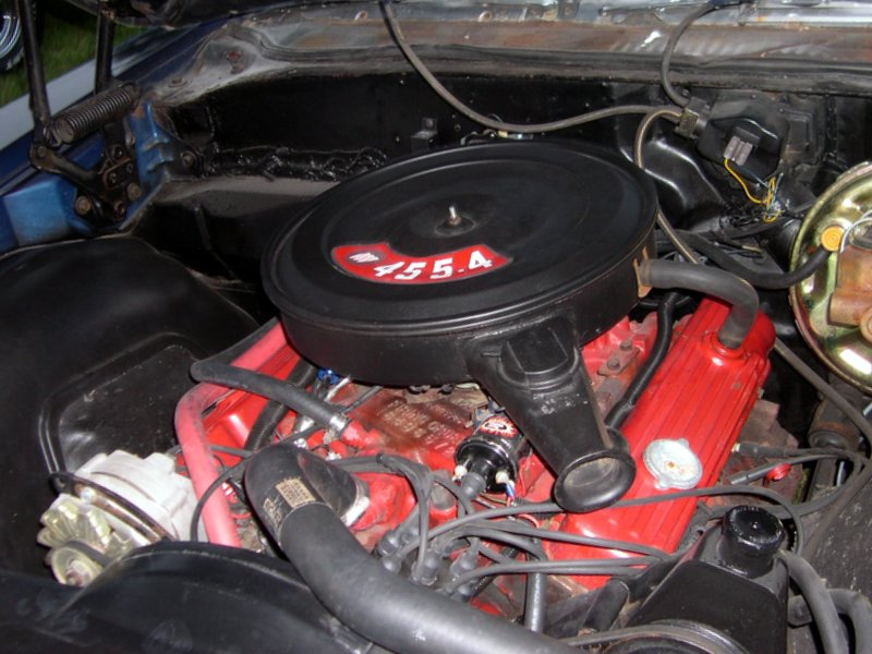 Buick 455 V8.